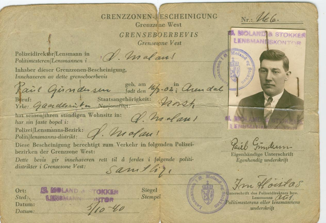 My father's "grenseboerbevis". My father died in 1990